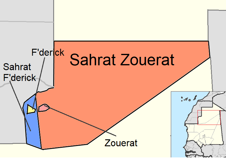 The communes in Zouerat department